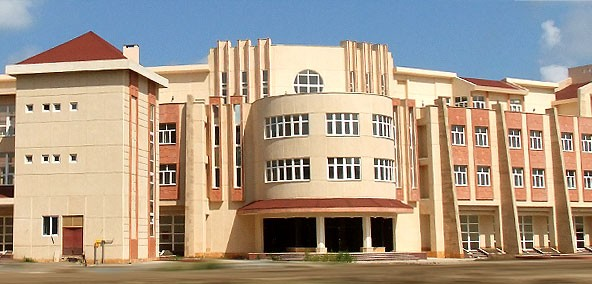 Allame Mohaddes Noori private university.